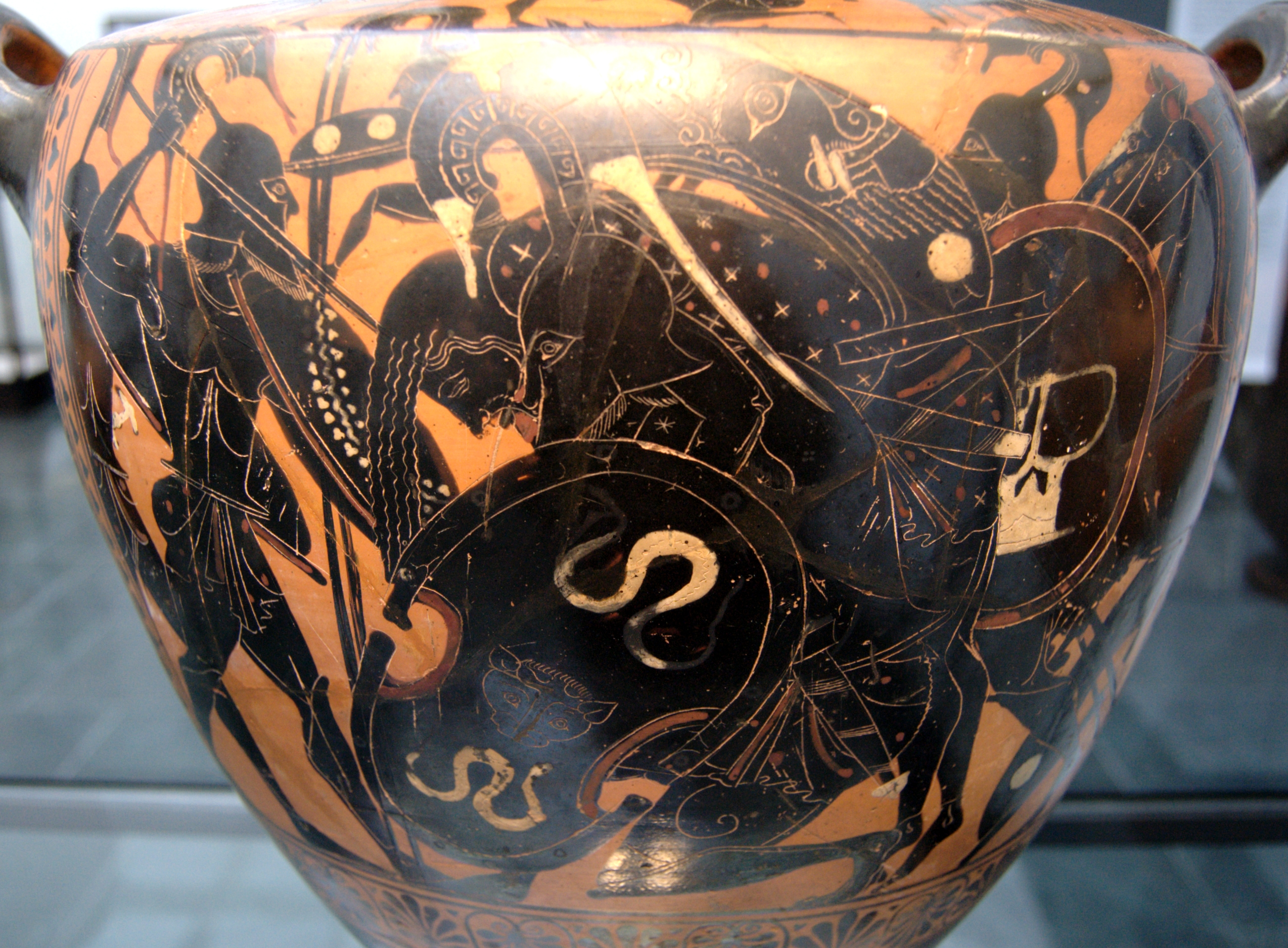 Ajax carrying the body of Achilles. Attic black-figure hydria.